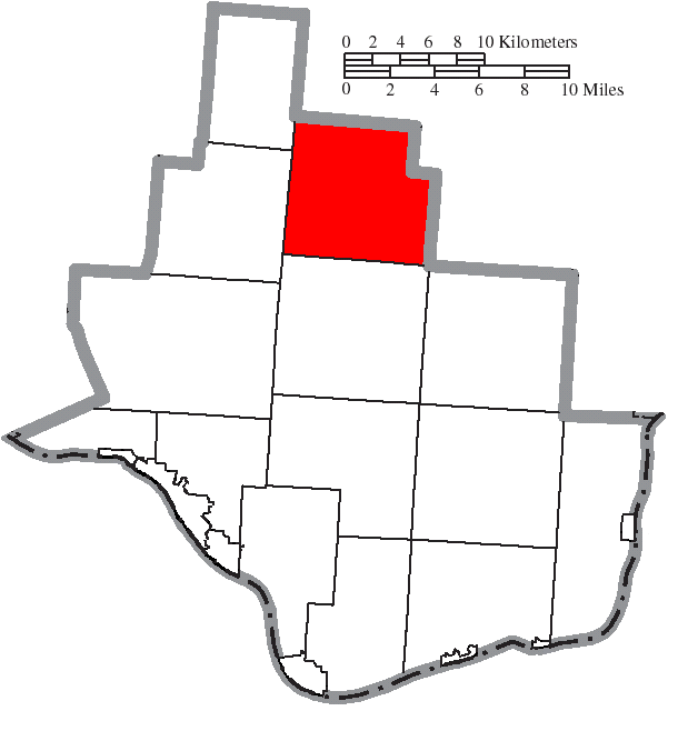 Map of the municipal and township boundaries of Lawrence County, Ohio, United States, as of the 2000 census, with the location of Symmes Township highlighted. Township borders are shown only in unincorporated areas in order to differentiate incorporated and unincorporated areas more clearly.